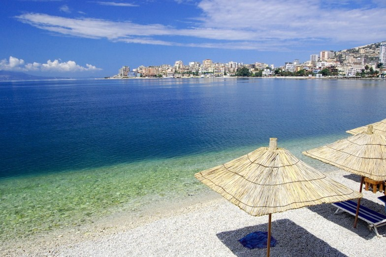 Saranda town and bay